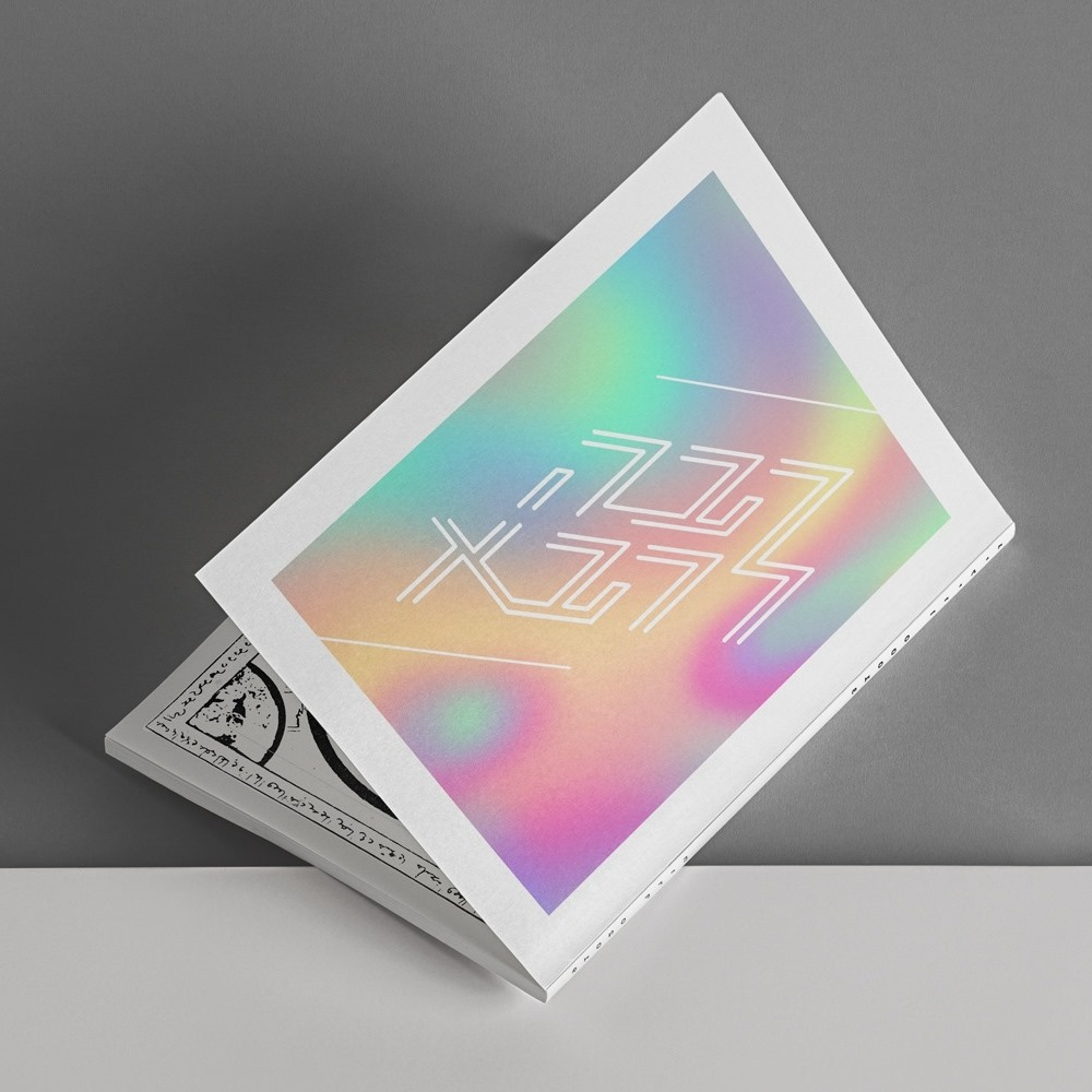 cover